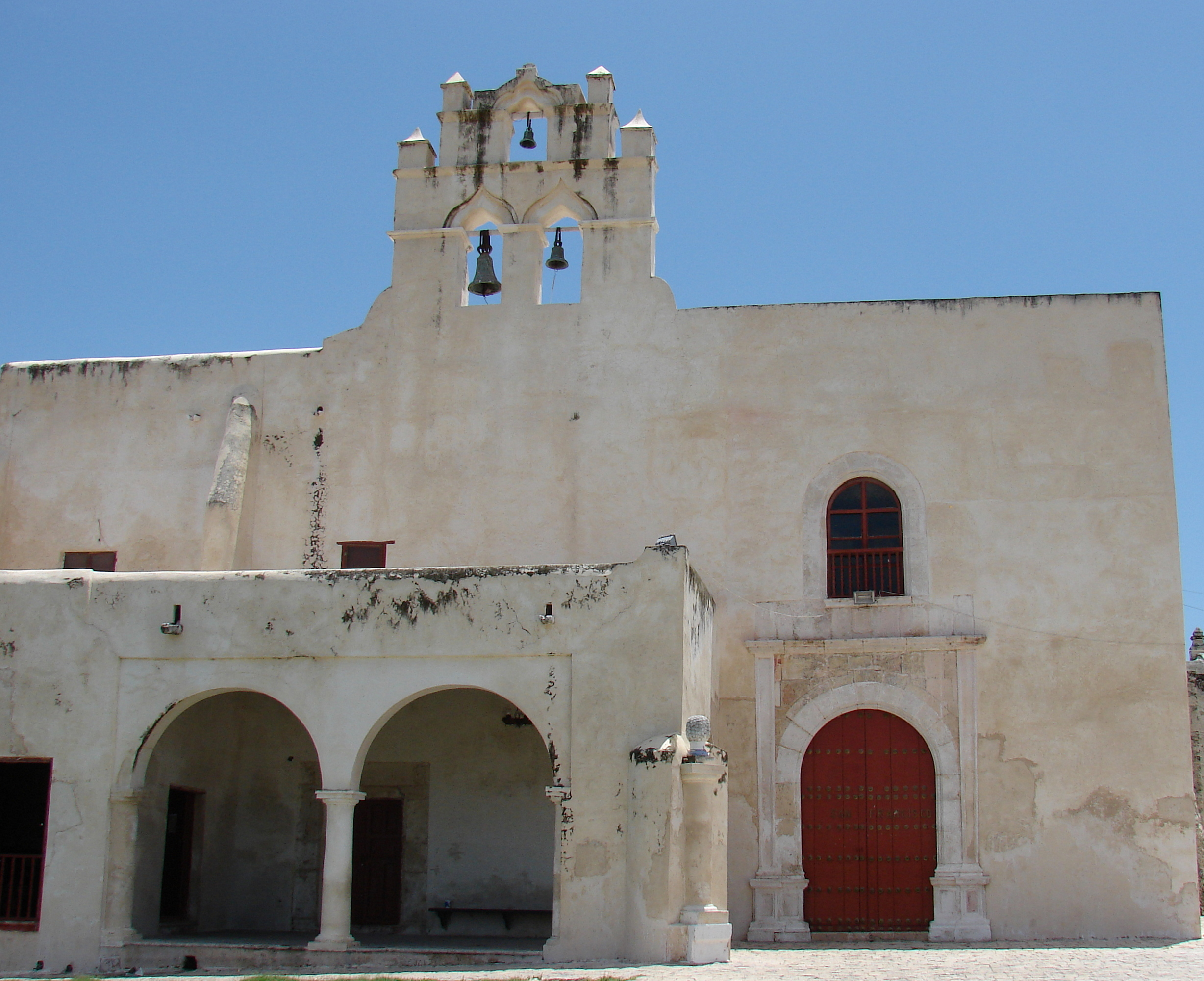 Temple and Convent of San Francisco, built in 1540 by the franciscians, in Campeche, Campeche, Mexico.